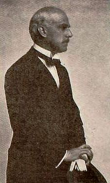 American interior designer and architect Paul Chalfin (1874 - 1959), on page 4965 of the June 19, 1920 Motion Picture News. From an article noting Chalfin was working with the Lasky studio.